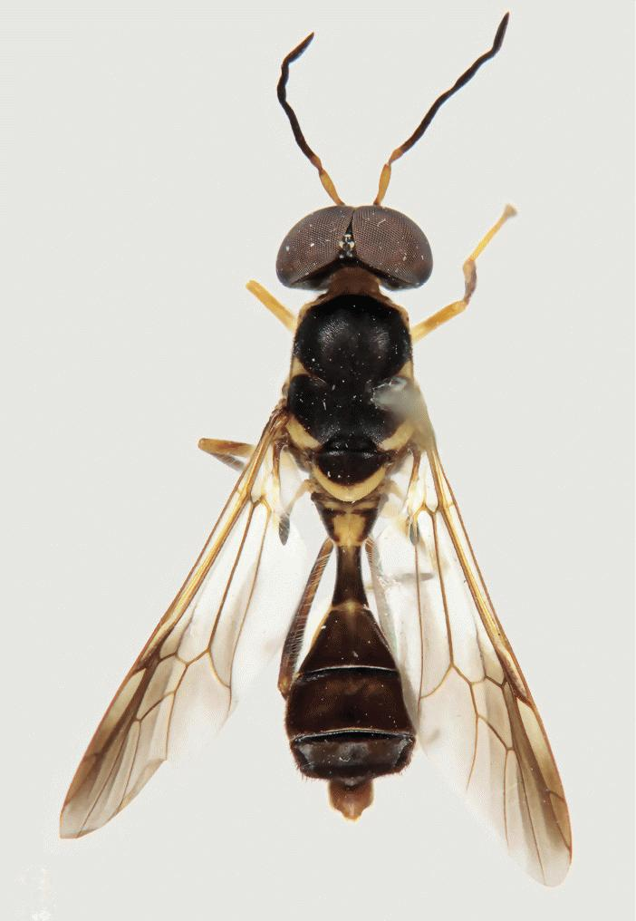 ZooKeys - Parastratiosphecomyia freidbergi Cut-out from original (Comparison of Parastratiosphecomyia species - ZooKeys-238-001-g002.jpeg) shown below